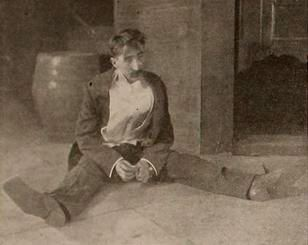 Still of Australian-born actor Clyde Cook, page 3302 of the April 10, 1920 Motion Picture News. The still accompanied an article on the signing of the actor by Fox Films.